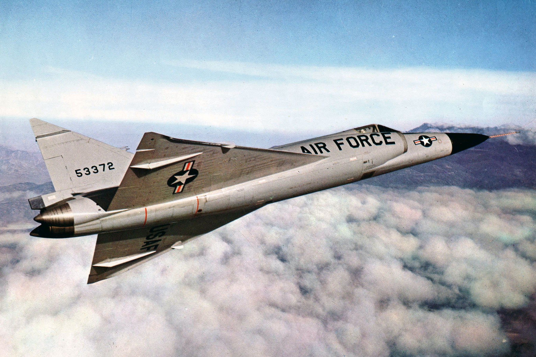 A Convair F-102A at Elmendorf AFB, Alaska in January 1958